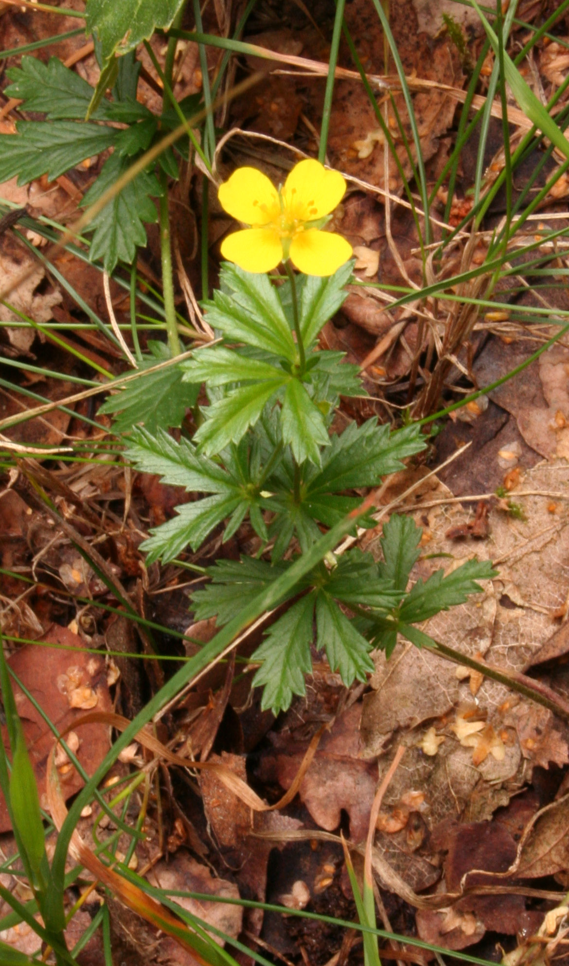 a flower